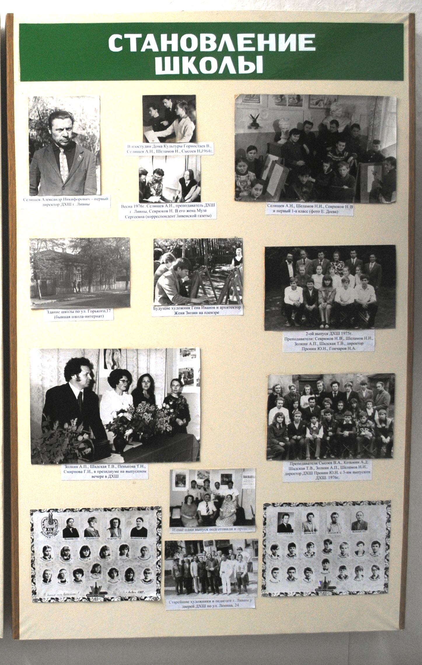 Livny's children's art school